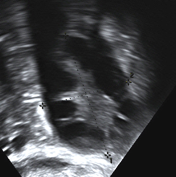 polycystic ovary